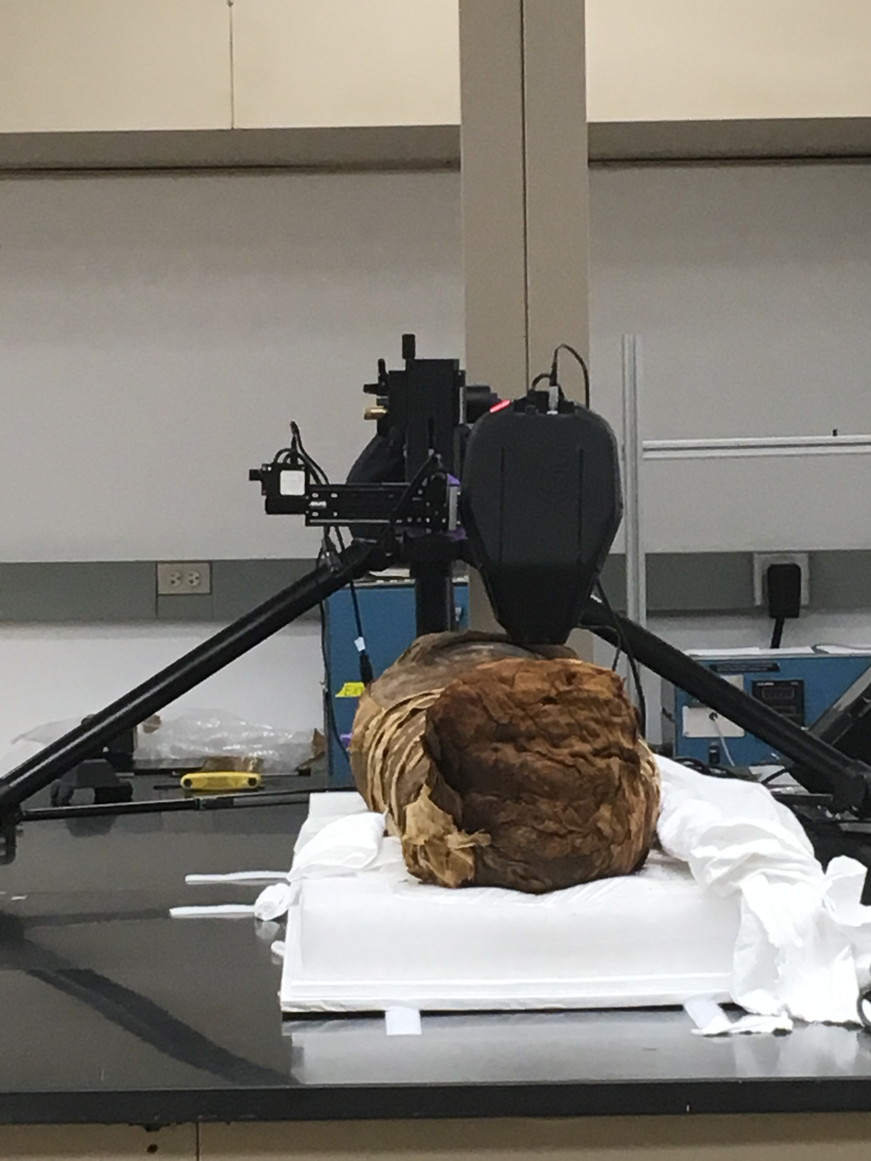 X-ray Fluorescence spectroscopy of a roman portrait mummy. The device is positioned as close as is safe to the artifact.